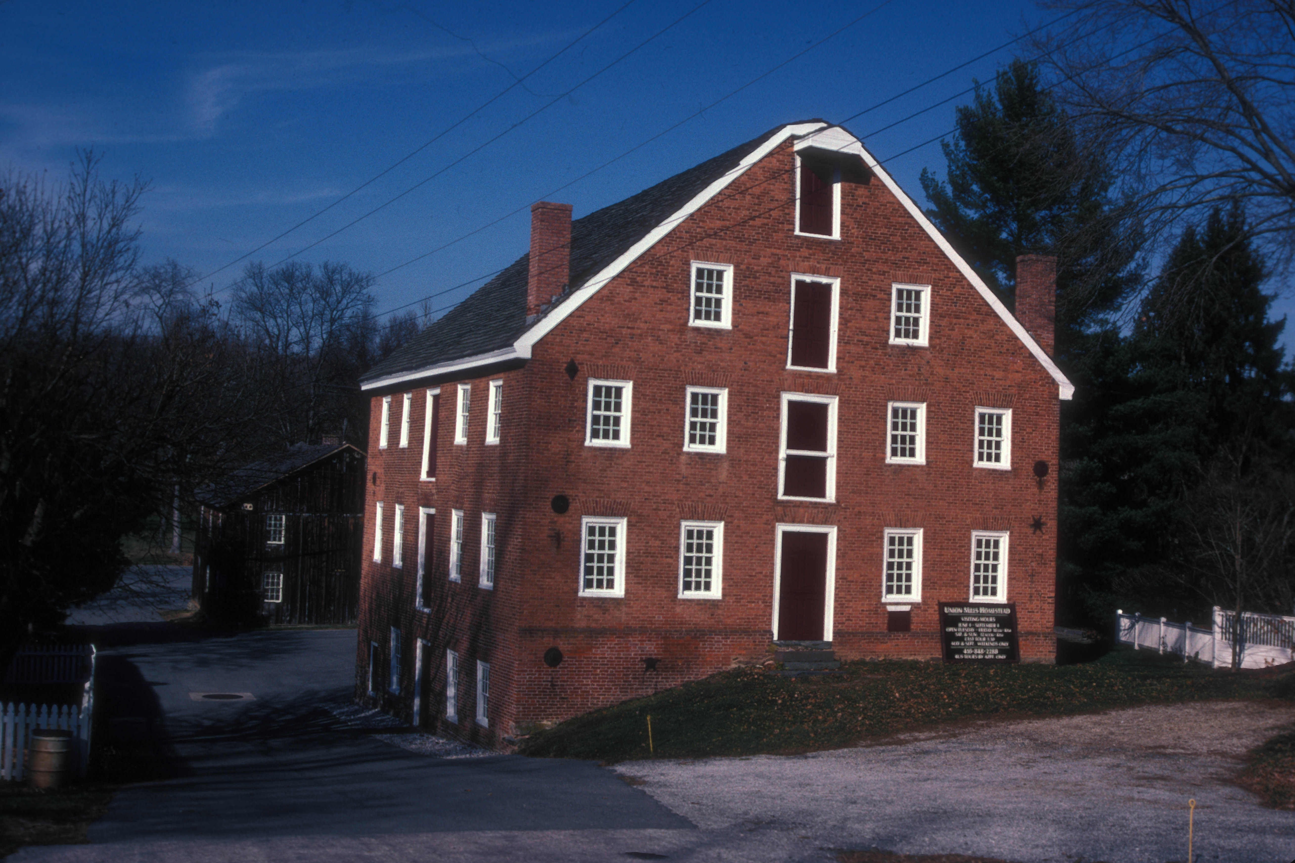 1797 MILL AND HOUSE OF THE SHRIVER FAMILY BUILT ON THE SITE OF AN EARLIER MILL